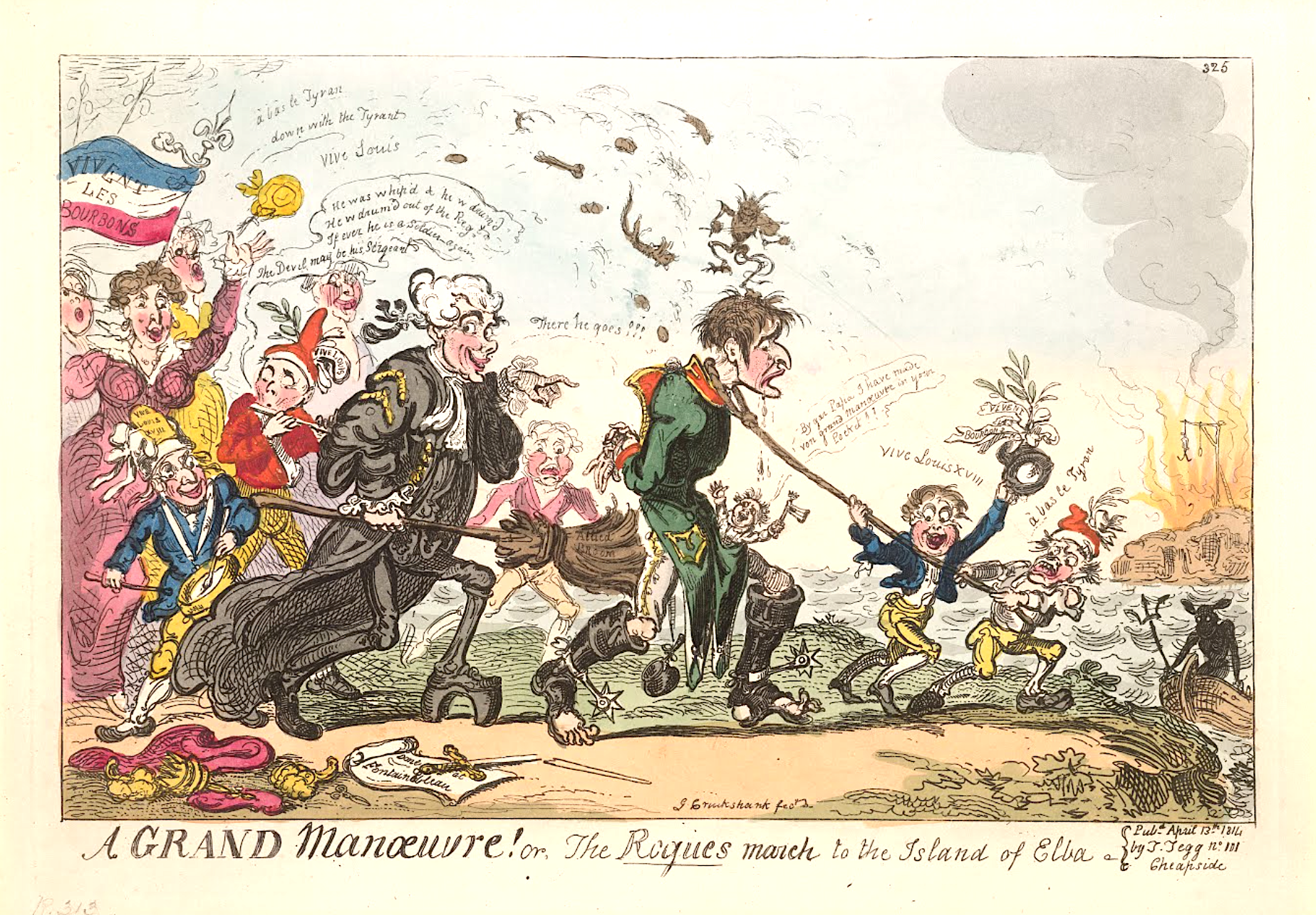 Satirical cartoon by George Cruikshank of the overthrow of Napoleon